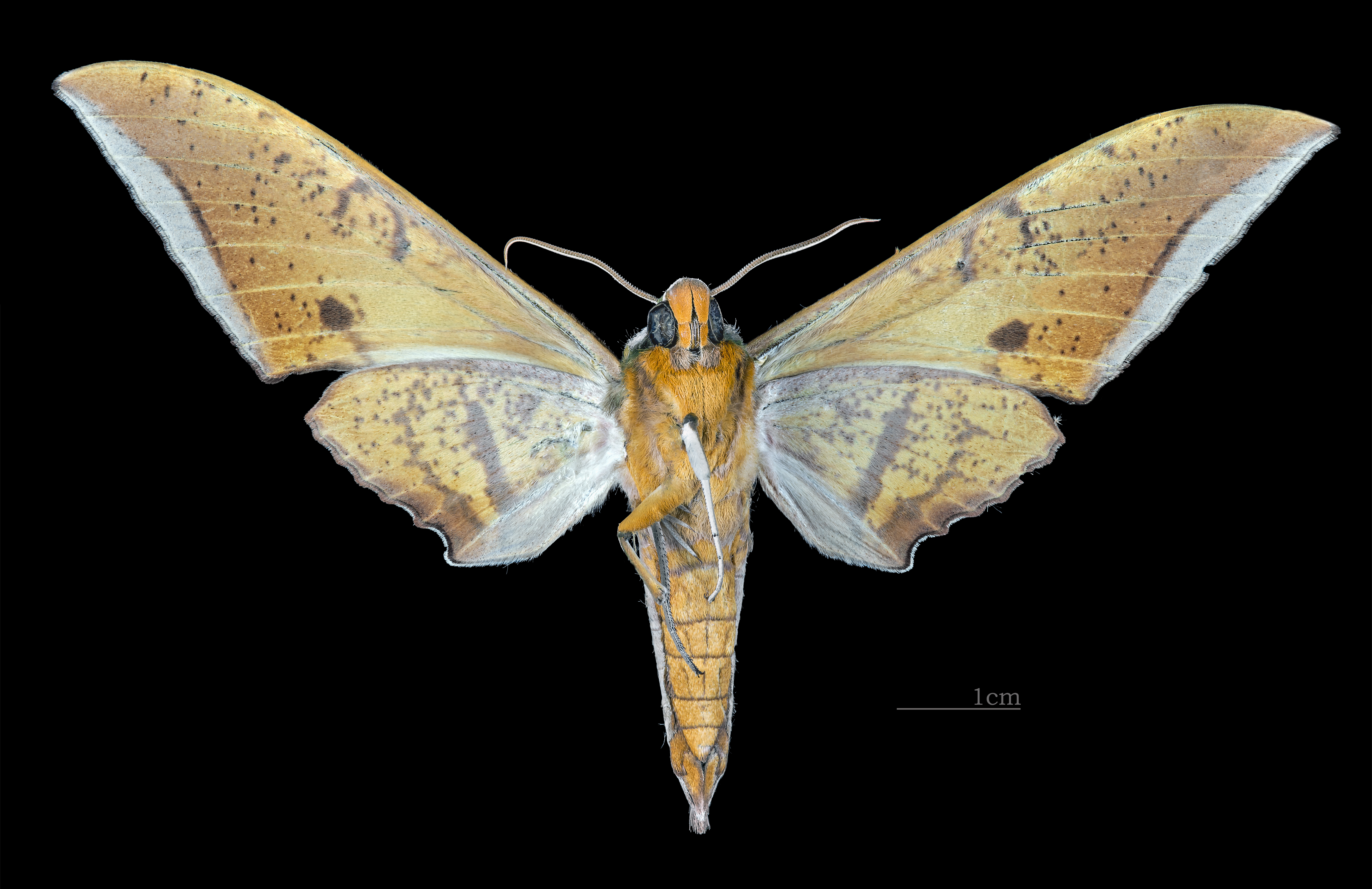 Violet gliding hawkmoth - △ Ventral side Collection of the Mathematician Laurent Schwartz